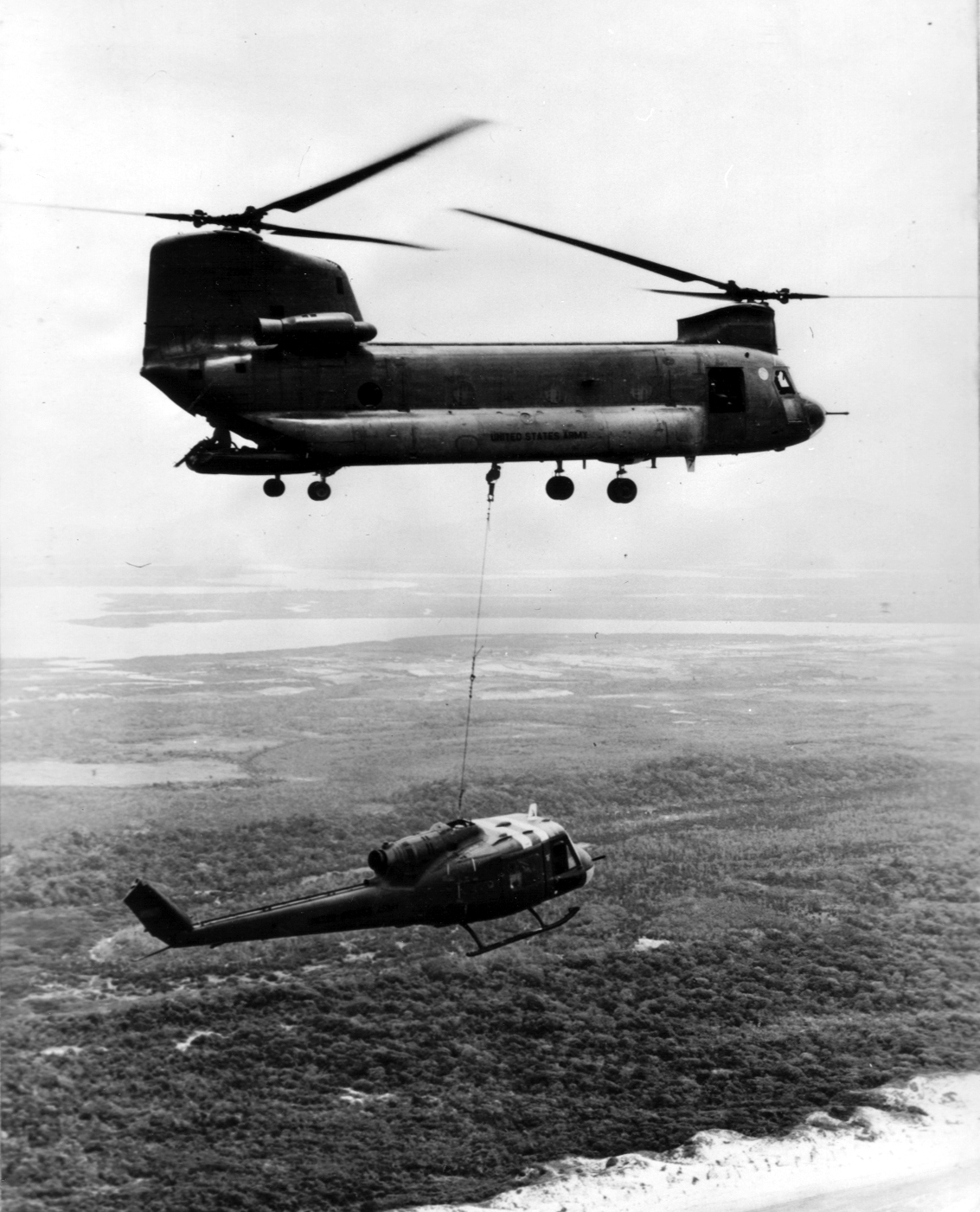 Recovery of a downed UH-1 by a CH-47 in Vietnam.